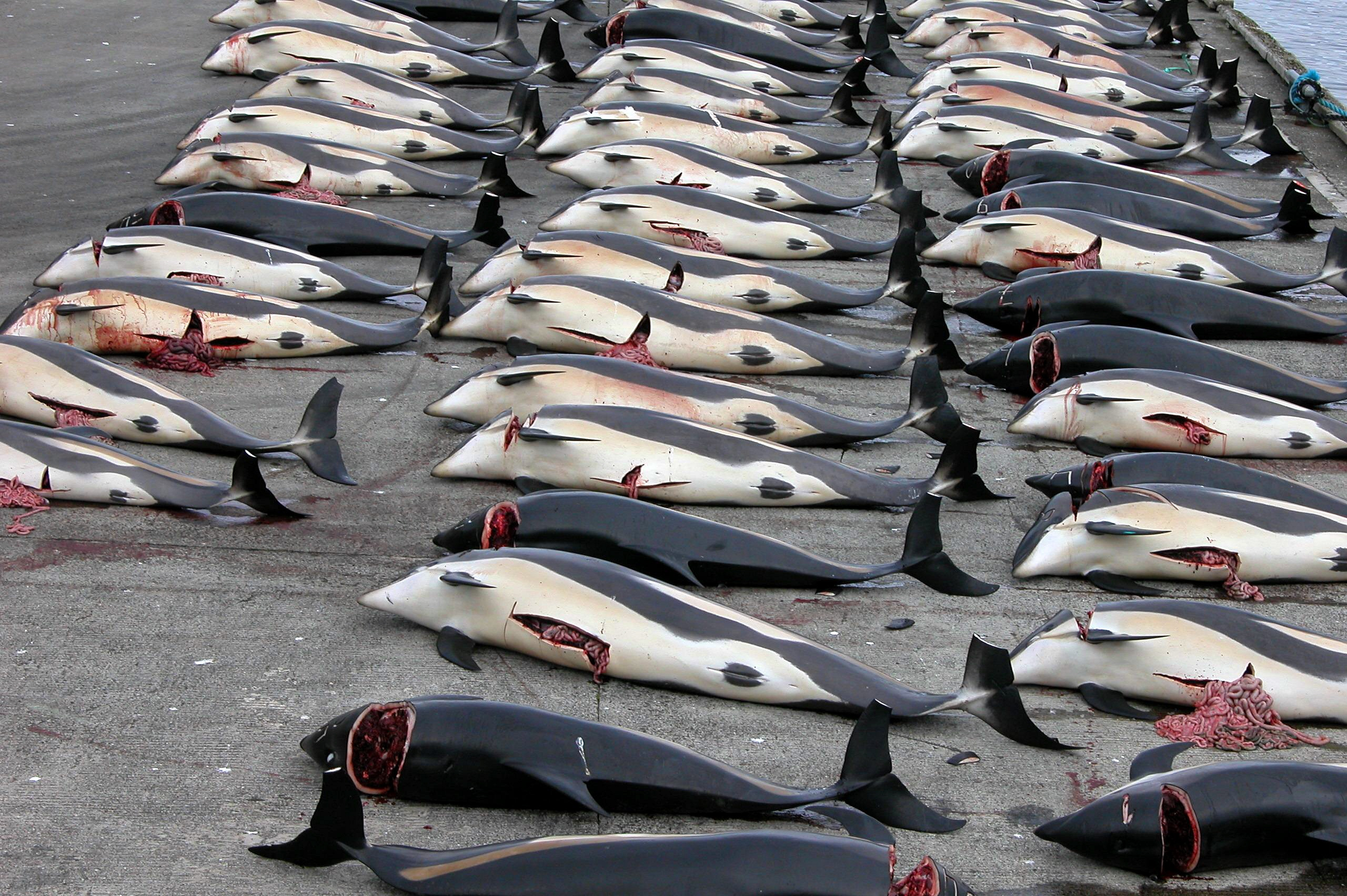 Whaling in the Faroe Islands. These are Atlantic White-sided Dolphins, on a concrete-floored dock at a small port called Hvalba, which is in the Faeroe Islands, located between the UK and Iceland. They've been caught for food, as has been done for at least a thousand years. Birds surround them, just not in the picture.